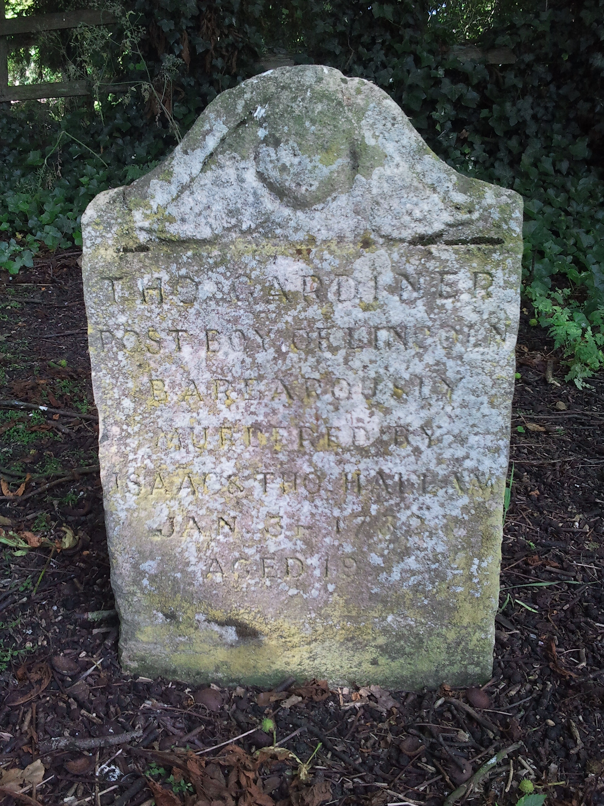 Thomas Gardiner's inscribed grave in Nettleham churchyard, UK. Murdered 1732/33. Other information Added to illustrate a contribution to the Nettleham page about Thomas Gardiner's murder.